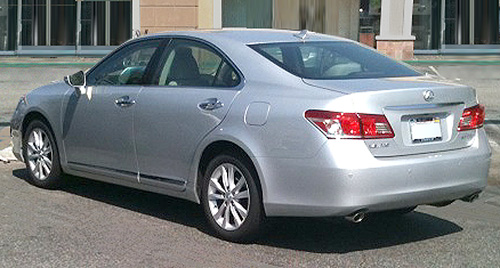 ES 350